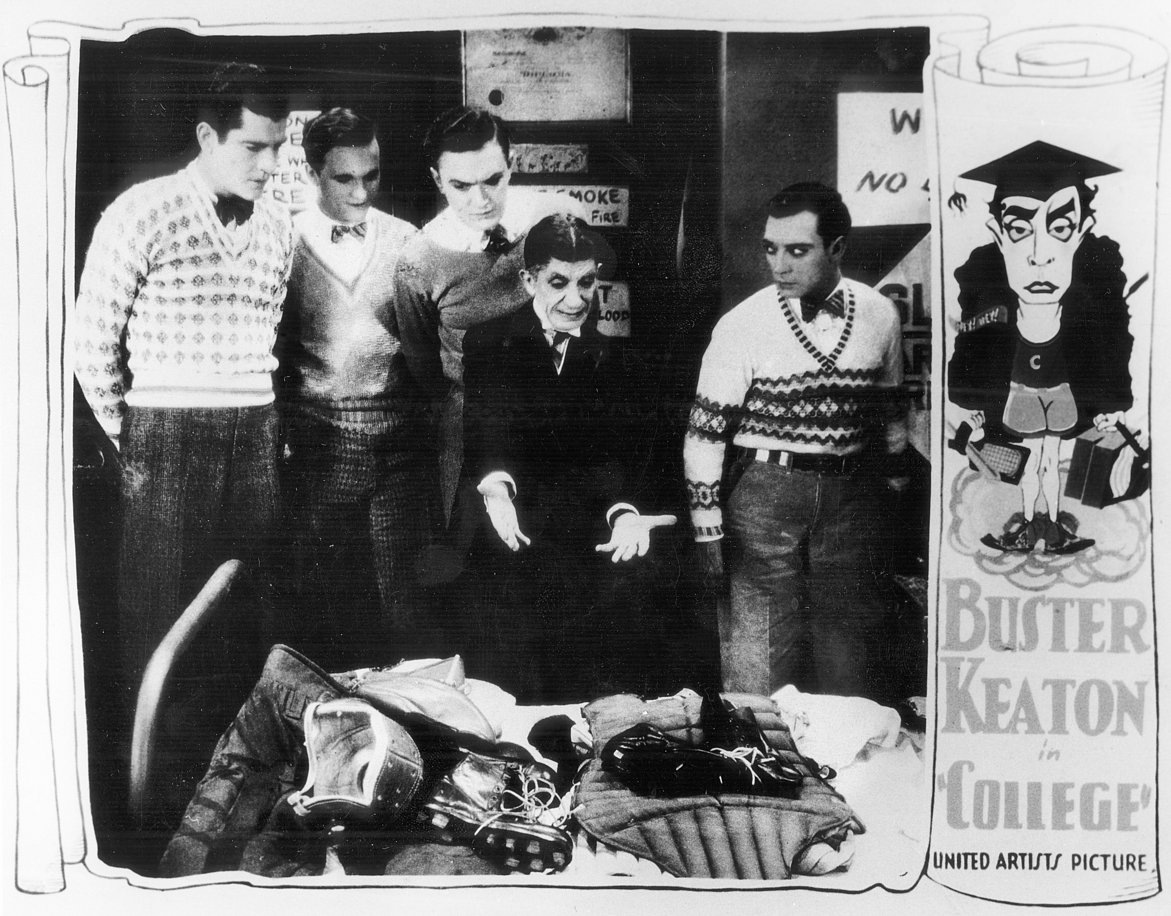 Lobby card for the Buster Keaton film College (1927). There are no known copyright restrictions on this image. All future uses of this photo should include the courtesy line, "Photo courtesy Orange County Archives." Comments are welcome after reading our Comment Policy. Photo collected during research for the Orange County Archives' 2011 exhibit, "On Location: Silent Film In Orange County."